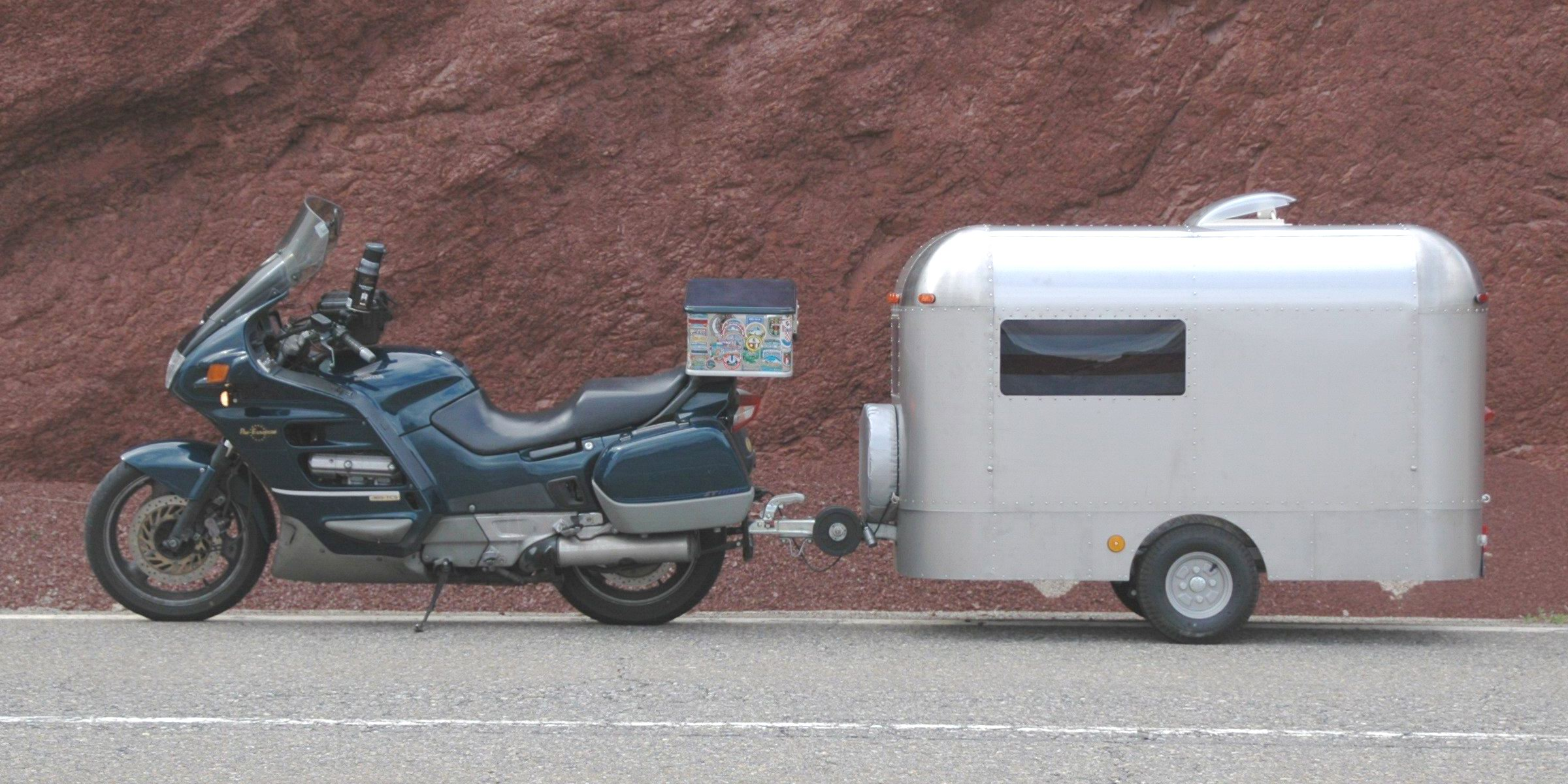 Stainless steel caravan Calypso towed by Honda ST 1100 Pan European in Spain